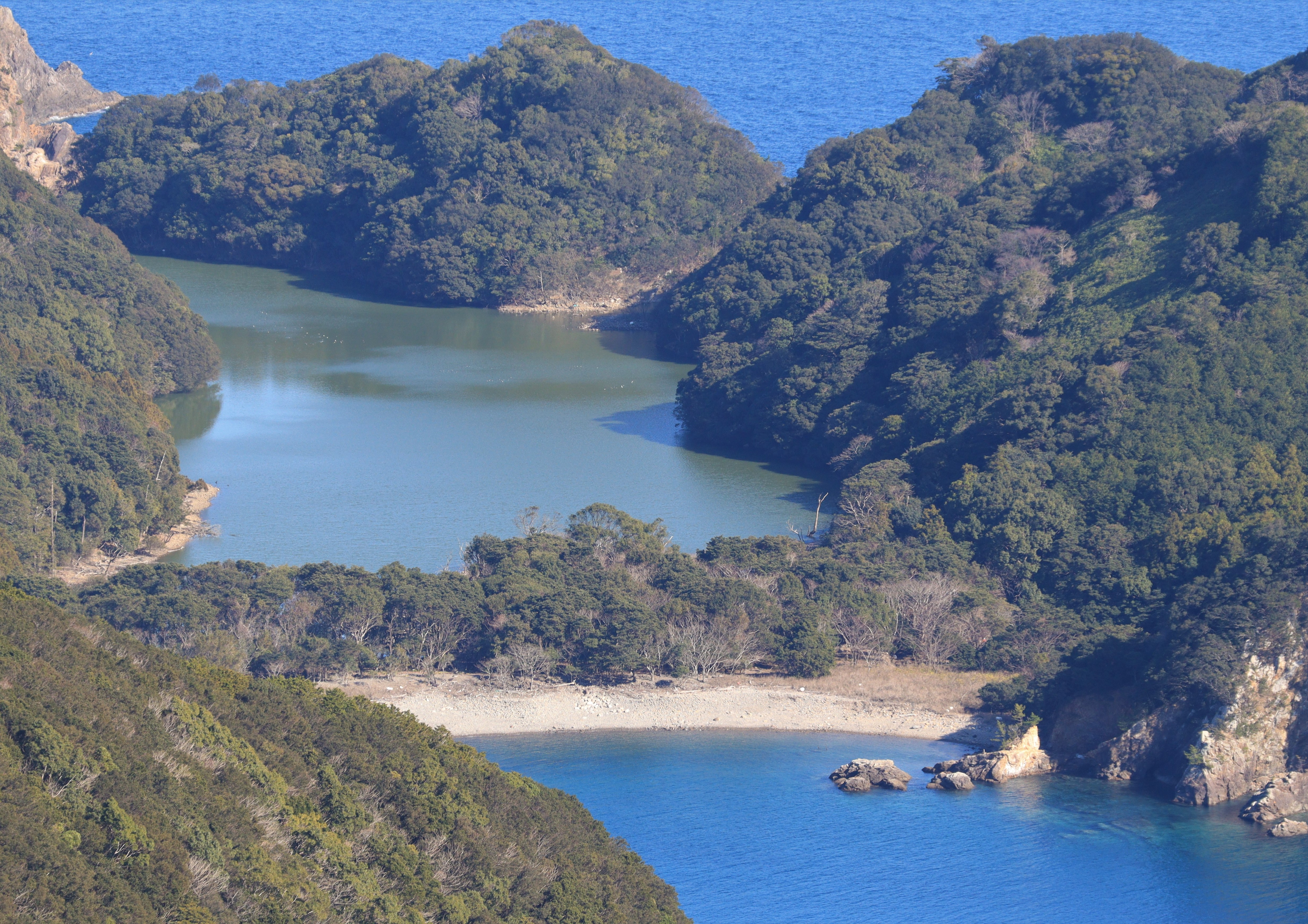 Sugarioike, a pond seen from Mount Hiwa in Owase, Mie Prefecture, Japan.